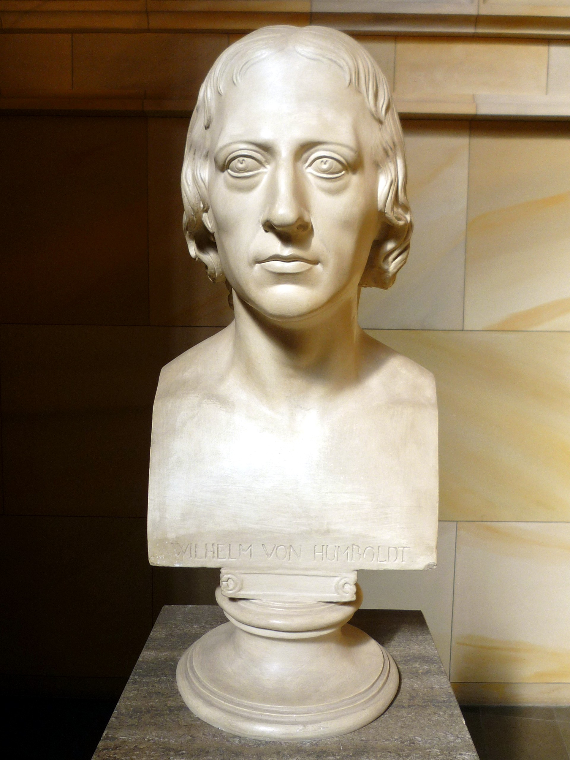 Portrait Wilhelm von Humboldt, sculptured by Bertel Thorvaldsen in 1808. Present location: "Friedrichswerdersche Kirche", today used as "Schinkelmuseum", in Berlin-Mitte.